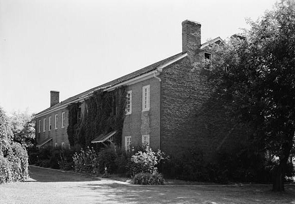 Shawnee Methodist Mission, East Building, Kansas City vicinity (Johnson County, Kansas) (cropped)